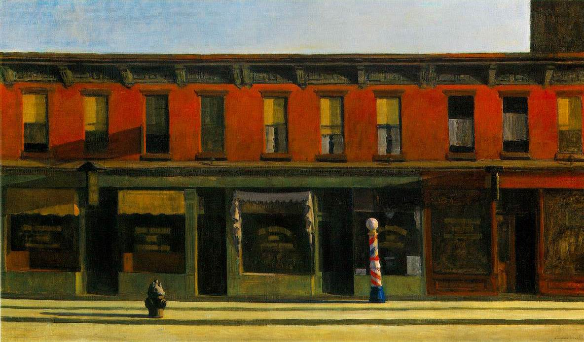 Early-sunday-morning-edward-hopper-1930